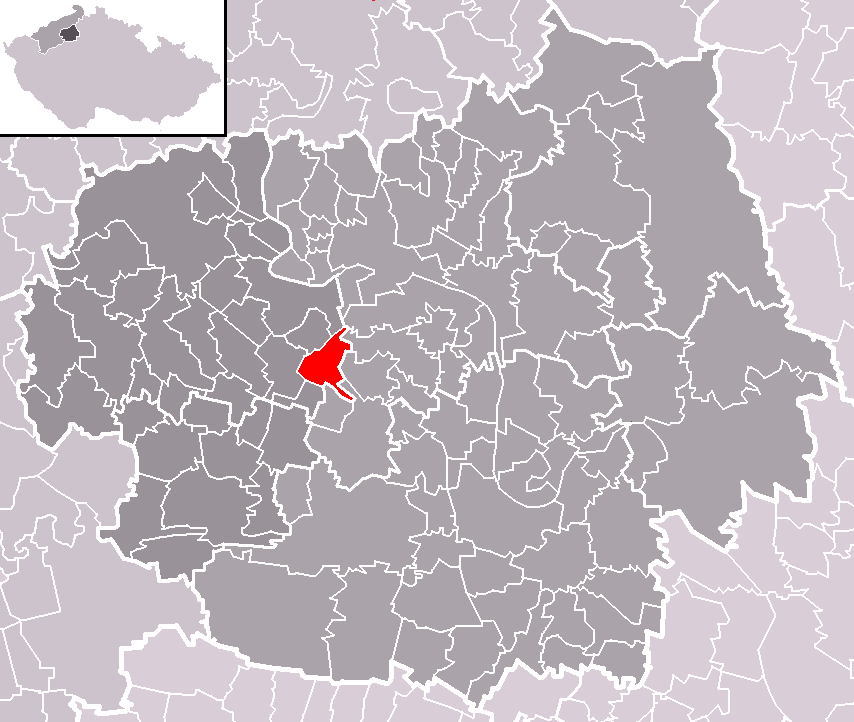 Location of Keblice municipality within Litoměřice District and administrative area of Lovosice as a Municipality with Extended Competence.